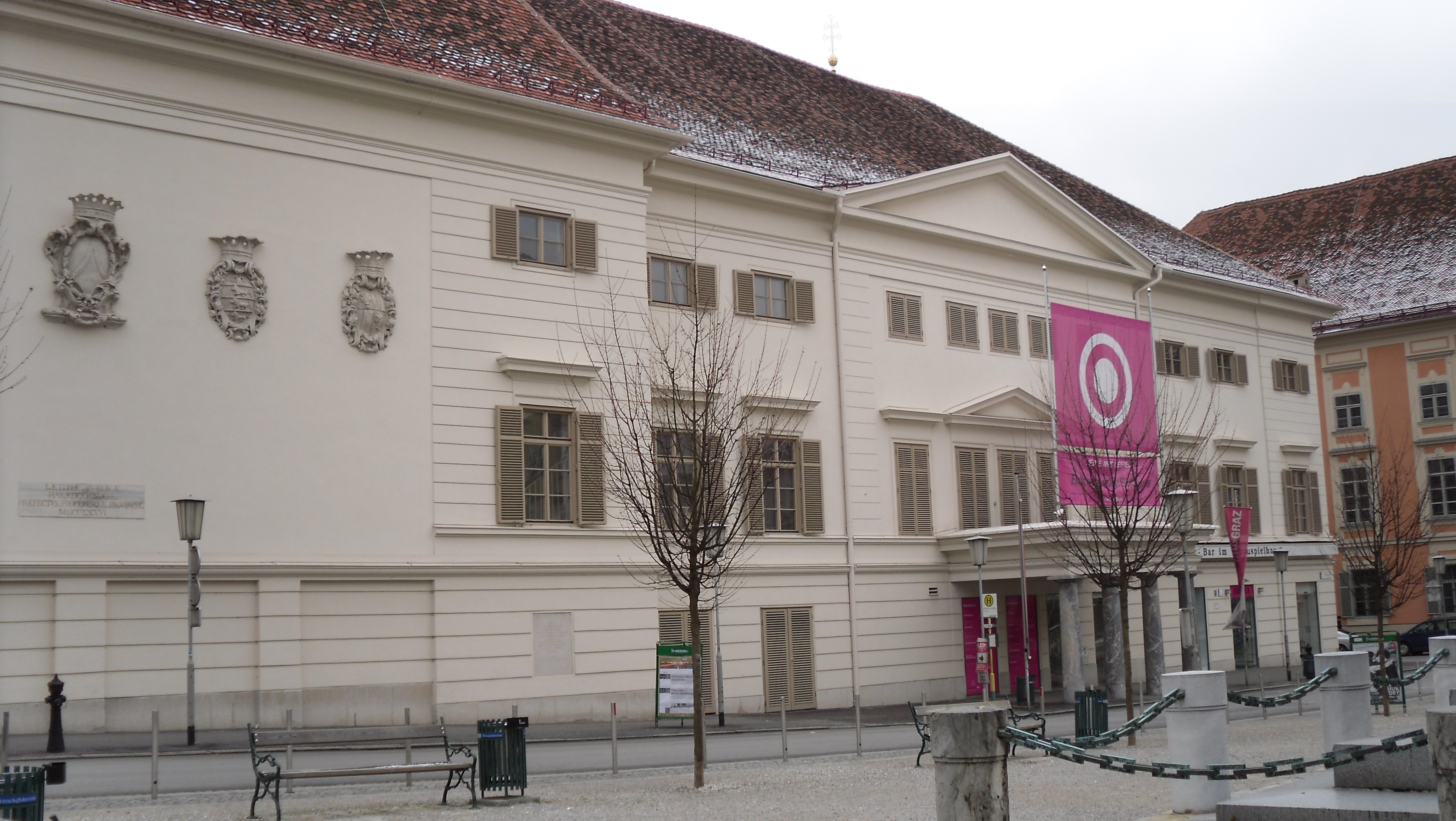 Theatre-House Graz/Styria/Austria